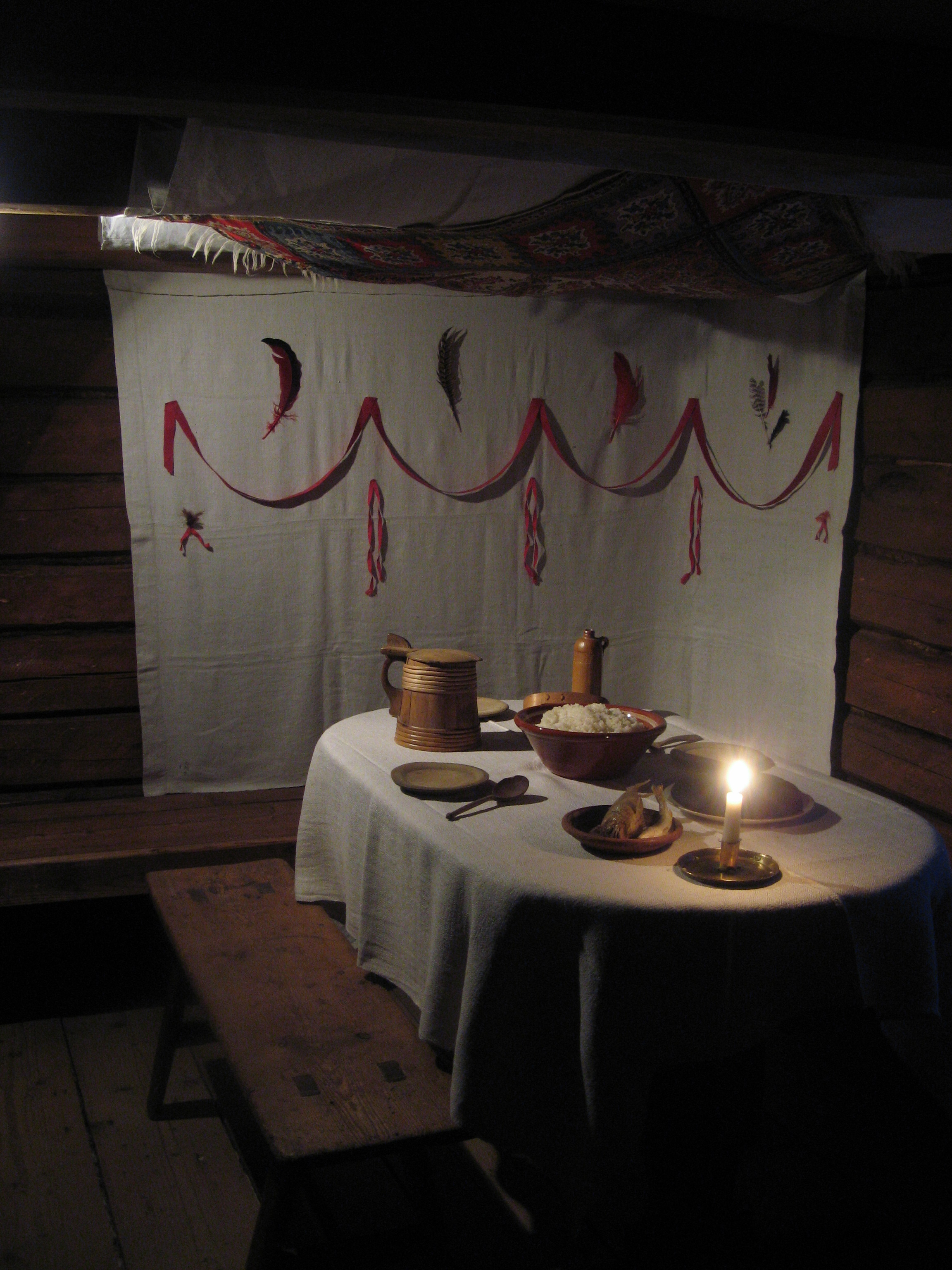 Christmas dinner as in the archipelago, at Luostarinmäki handicrafts museum, Turku.